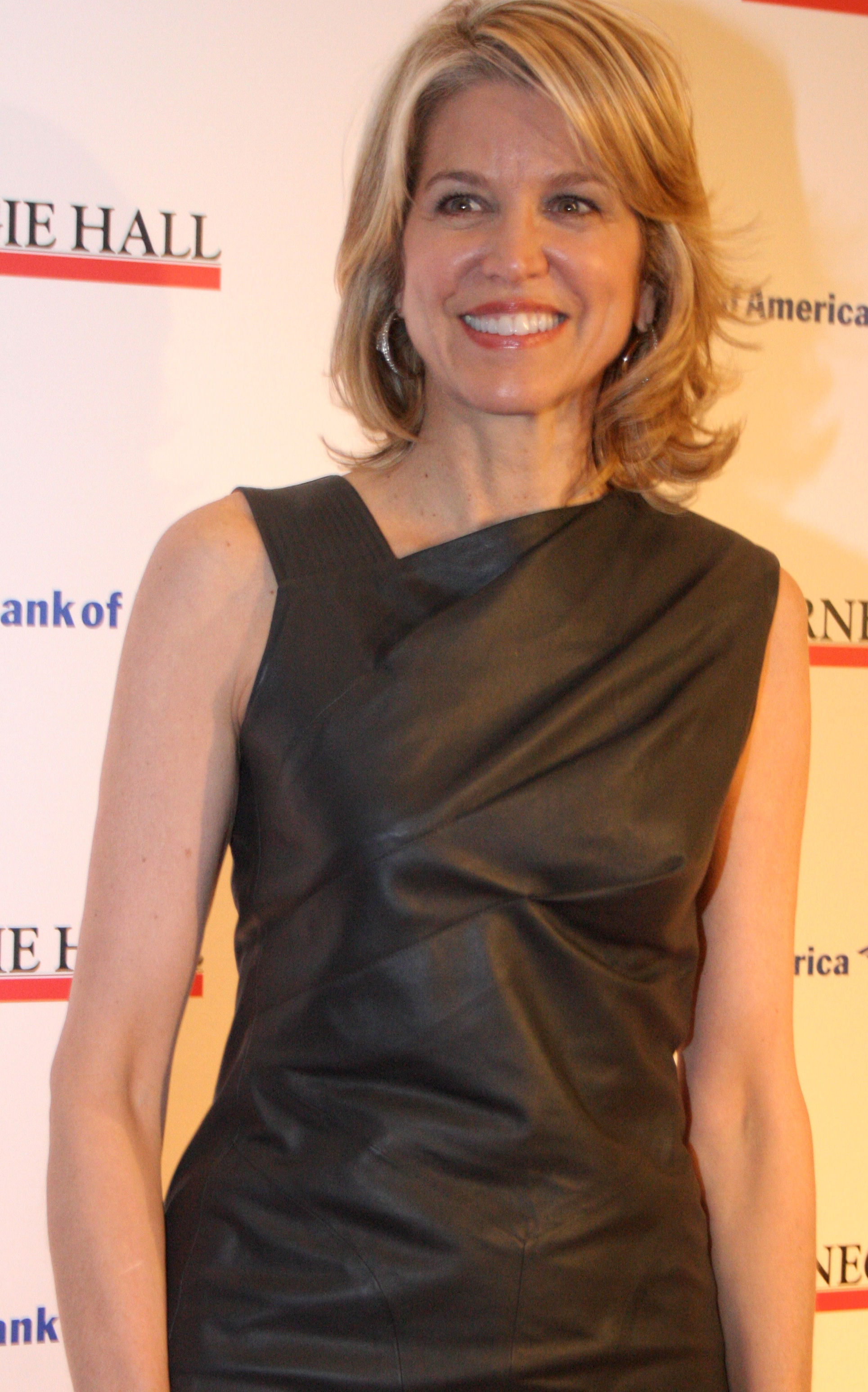 Paula Zahn at the 120th Anniversary of Carnegie Hall in MOMA, New York City in April 2011.